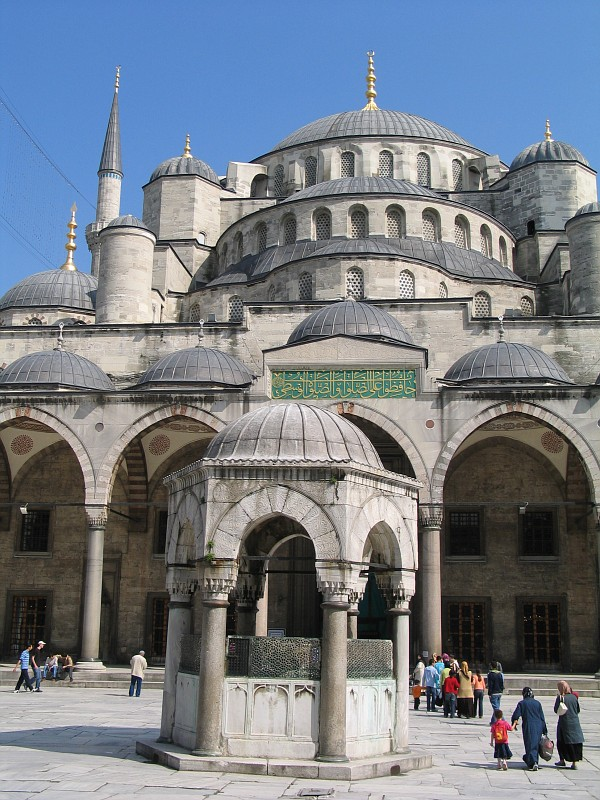 Sultan Ahmed Mosque or Blue Mosque, Istanbul. Photographer: Osvaldo Gago